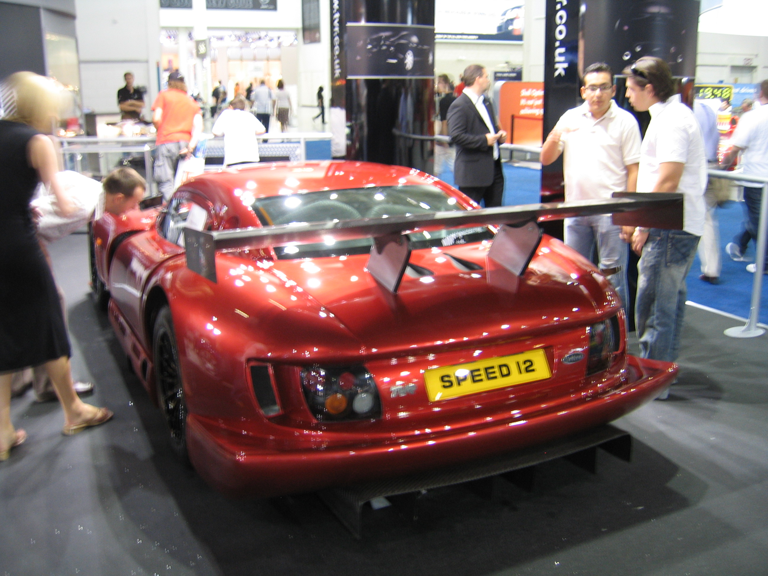 TVR Cerbra Speed 12